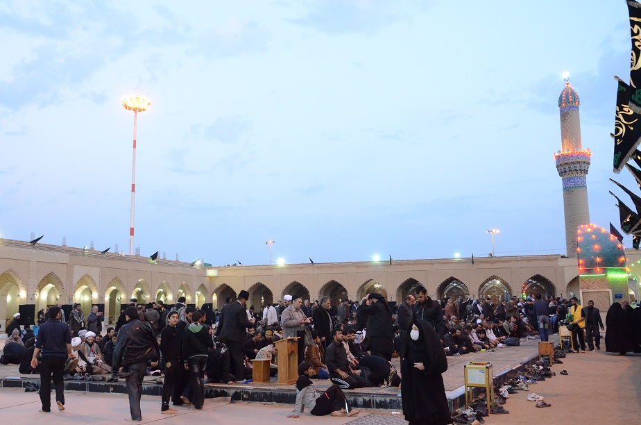 Al-Sahlah Mosque, main courtyard, Kufa, Iraq. Mosque of the 12th Shia Imam, Imam al-Mahdi.